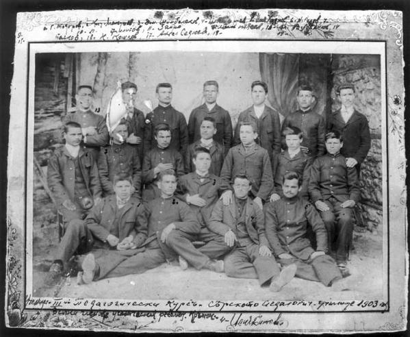 Bulgarian students from Serres, Aegean Macedonia